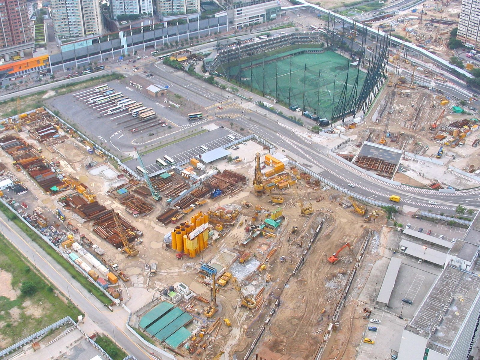 Construction Site of West Rail Line Austin Station (fka West Kowloon Station) / Site for Guangzhou-Shenzhen-Hong Kong High-Speed Railway West Kowloon Station